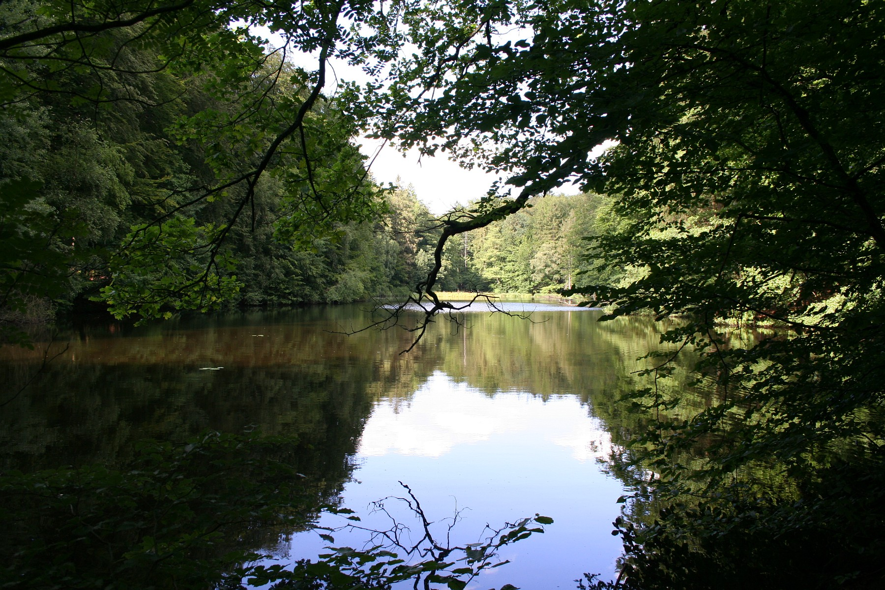 Mittelteich lake in Hahnheide forest near Trittau